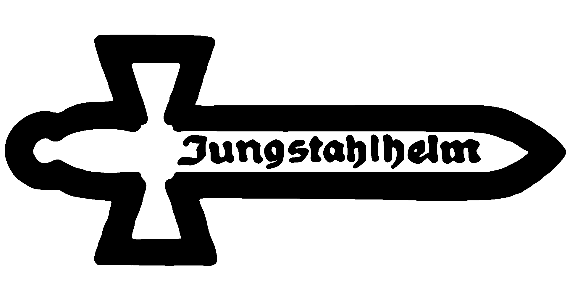 Jungstahlhelm, the youth organisation of the Stahlhelm, Bund der Frontsoldaten